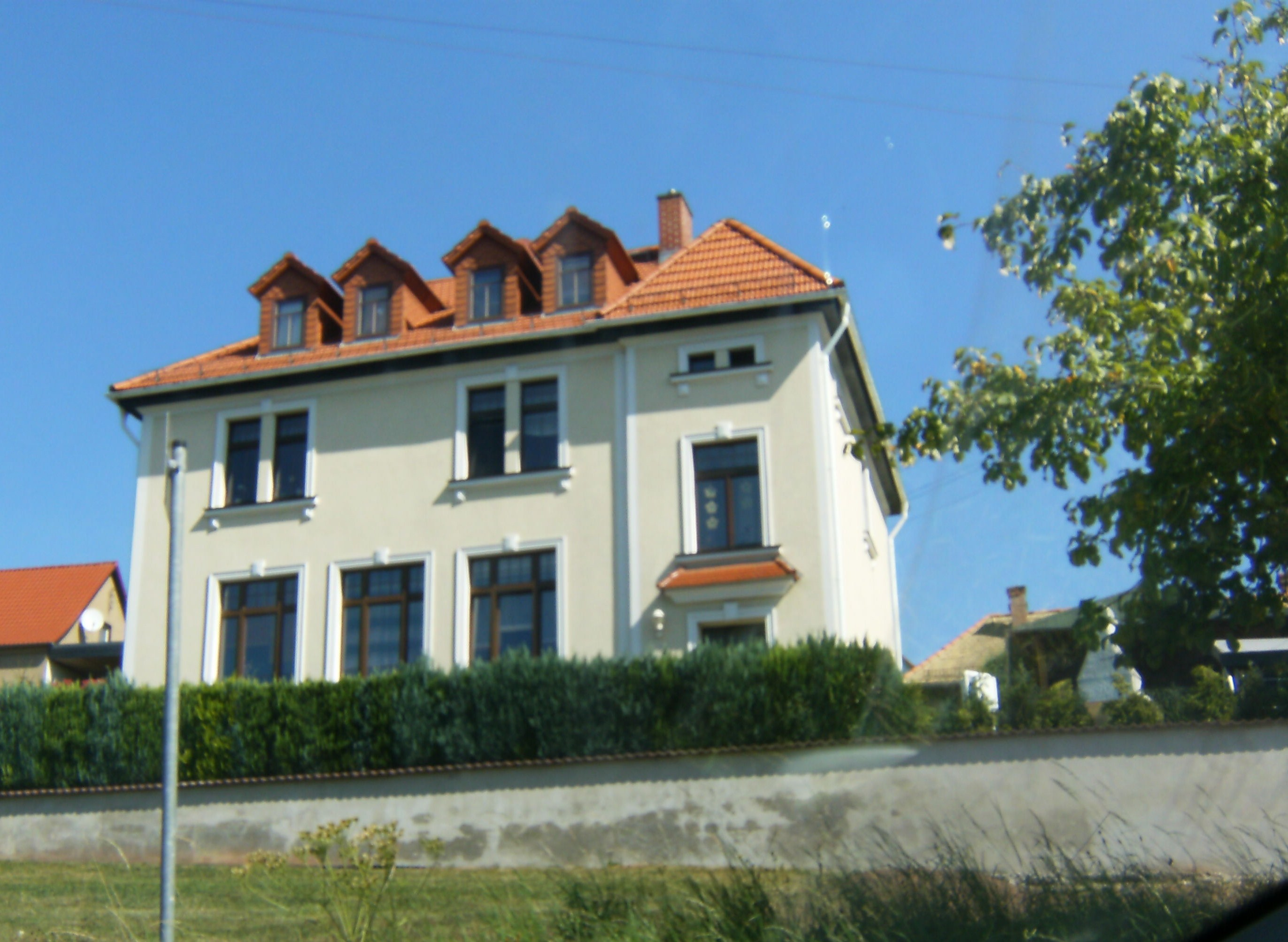 Wüstfalke, former school.